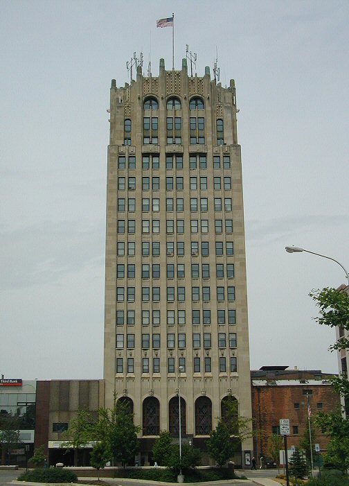 Jackson Tower, Jackson's tallest building and home to the county government.